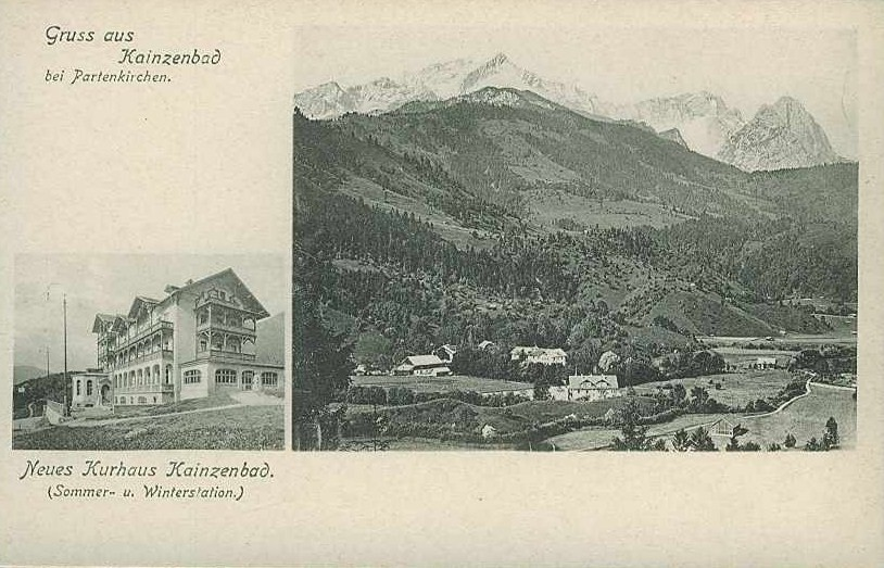 Kainzenbad hotel near Partenkirchen.